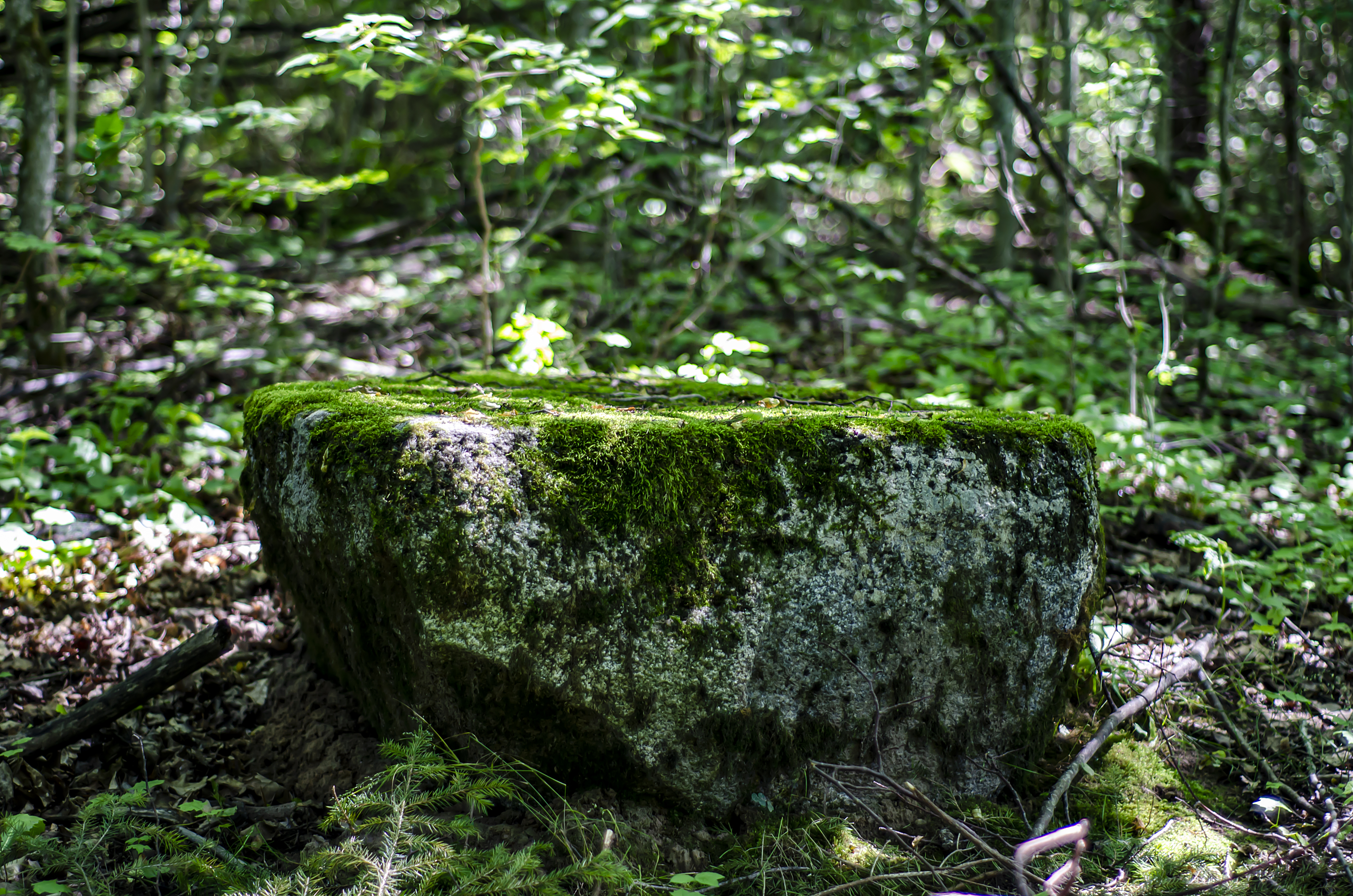 Krikaly, Dunilavičy, Pastavy District, Vitebsk Region, Belarus